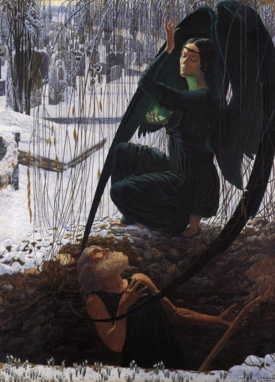 The Death of the Grave Digger by Carlos Schwabe Removed from the following pages: Symbolism --OrphanBot 09:03, 15 December 2006 (UTC) Restored -- Smerdis of Tlön 16:10, 22 December 2006 (UTC)